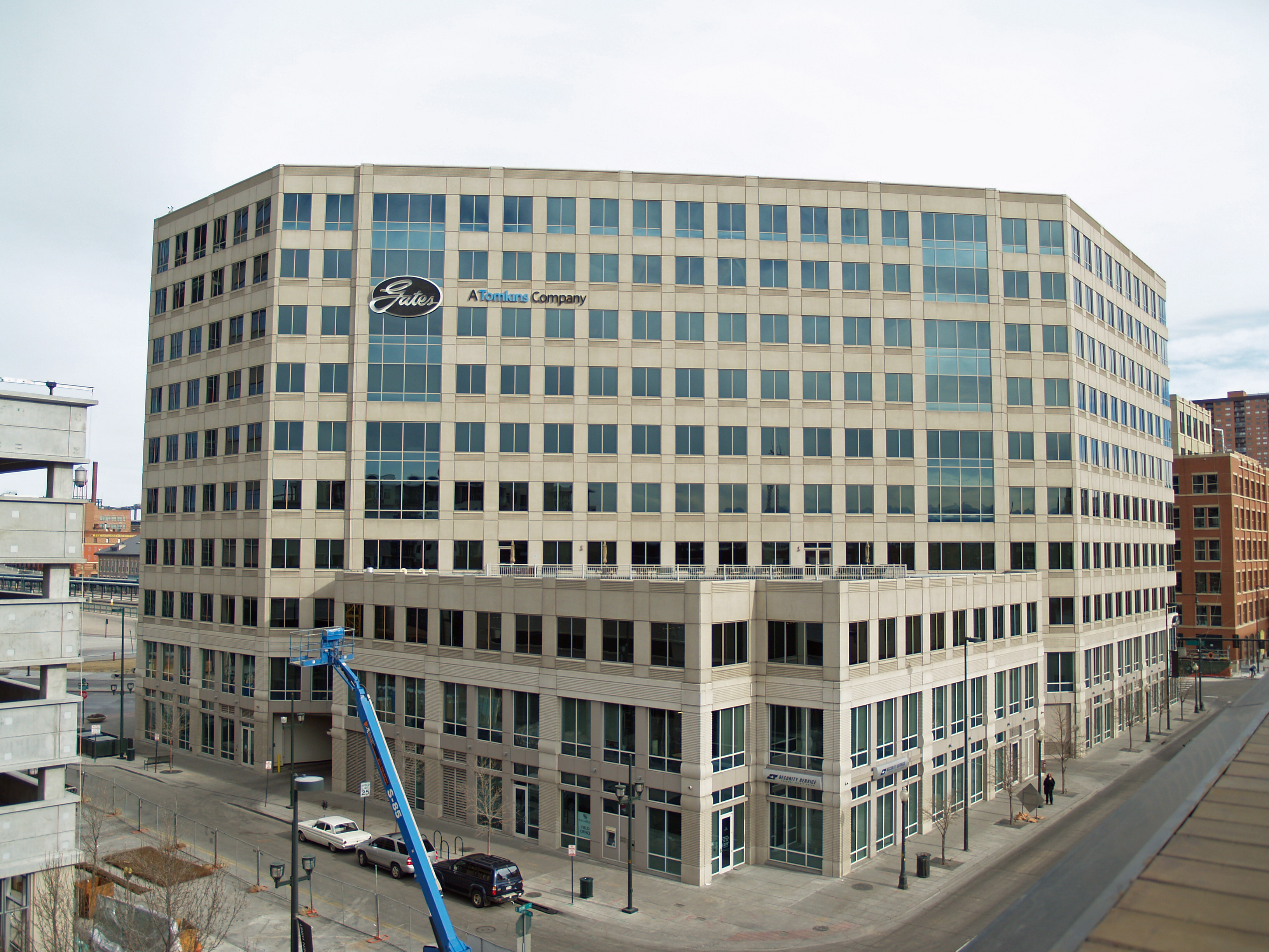 Headquarters of Gates Rubber Company in Denver, Colorado.